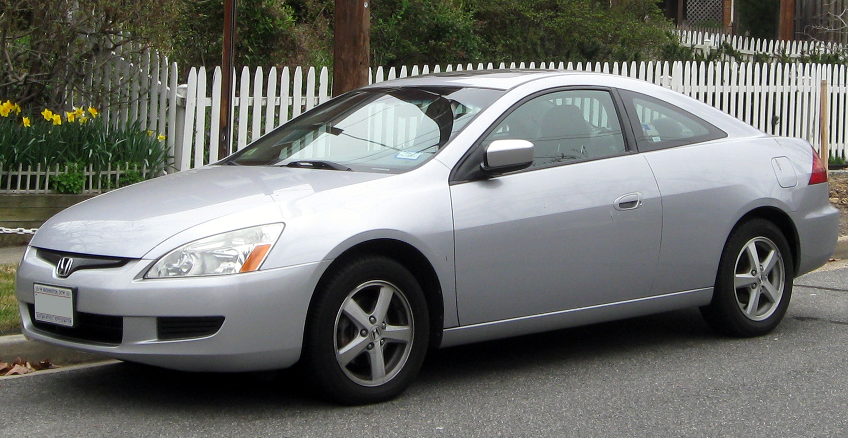 2003-2005 Honda Accord photographed in Washington, D.C., USA.